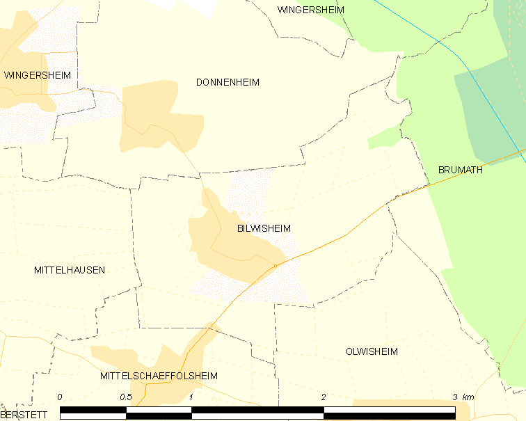 Map of French municipality